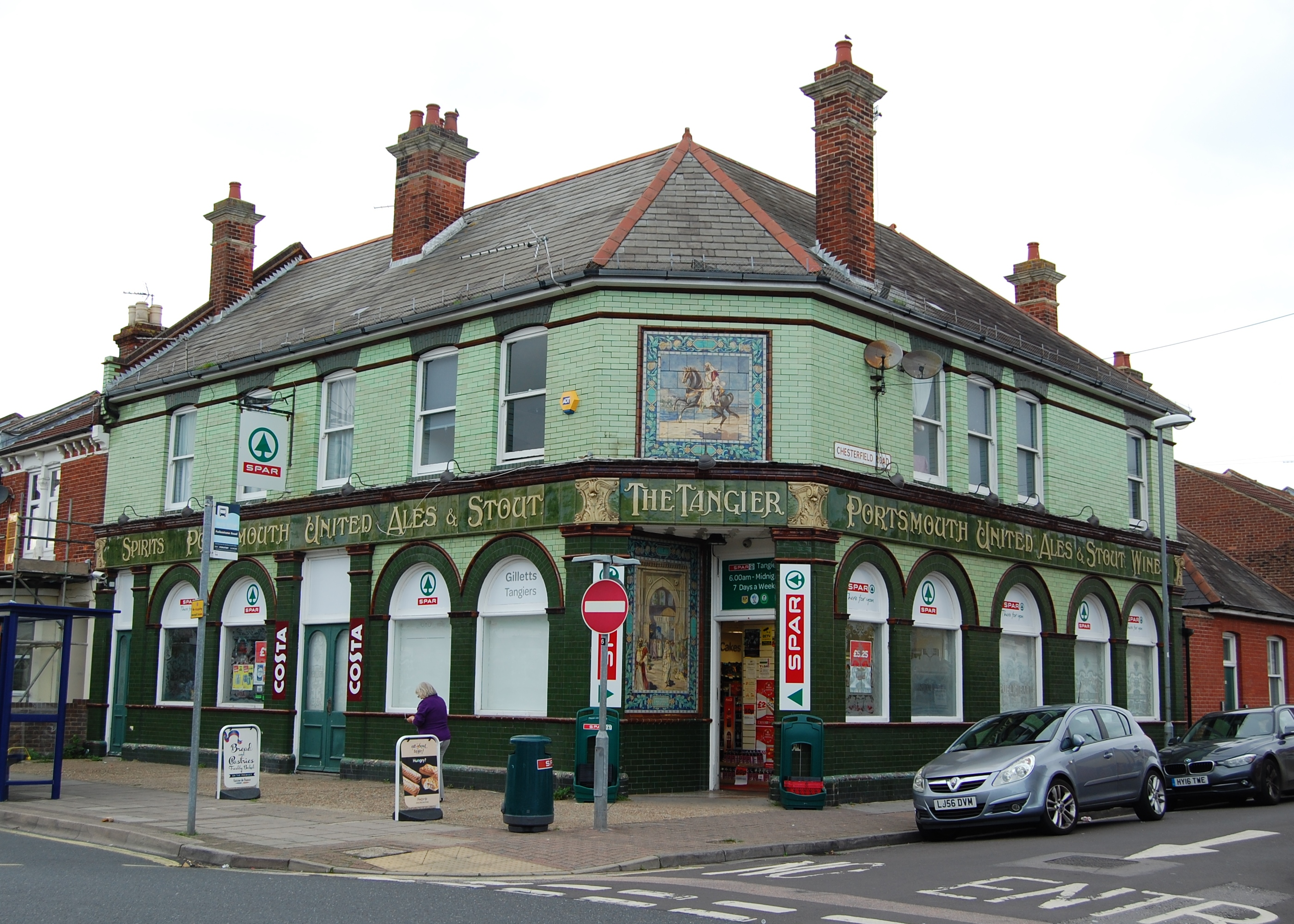 Former Tangier pub, Tangier Road, Copnor, City of Portsmouth, England. This Grade II-listed former pub dates from 1912 and was designed by locally prolific architect A.E. Cogswell. After it closed in about 2013 it was converted into a shop and flats.